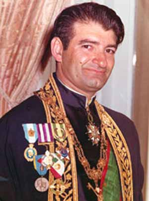 Mr. Golam Reza Nickpey Mayor of Tehran 1969-1978